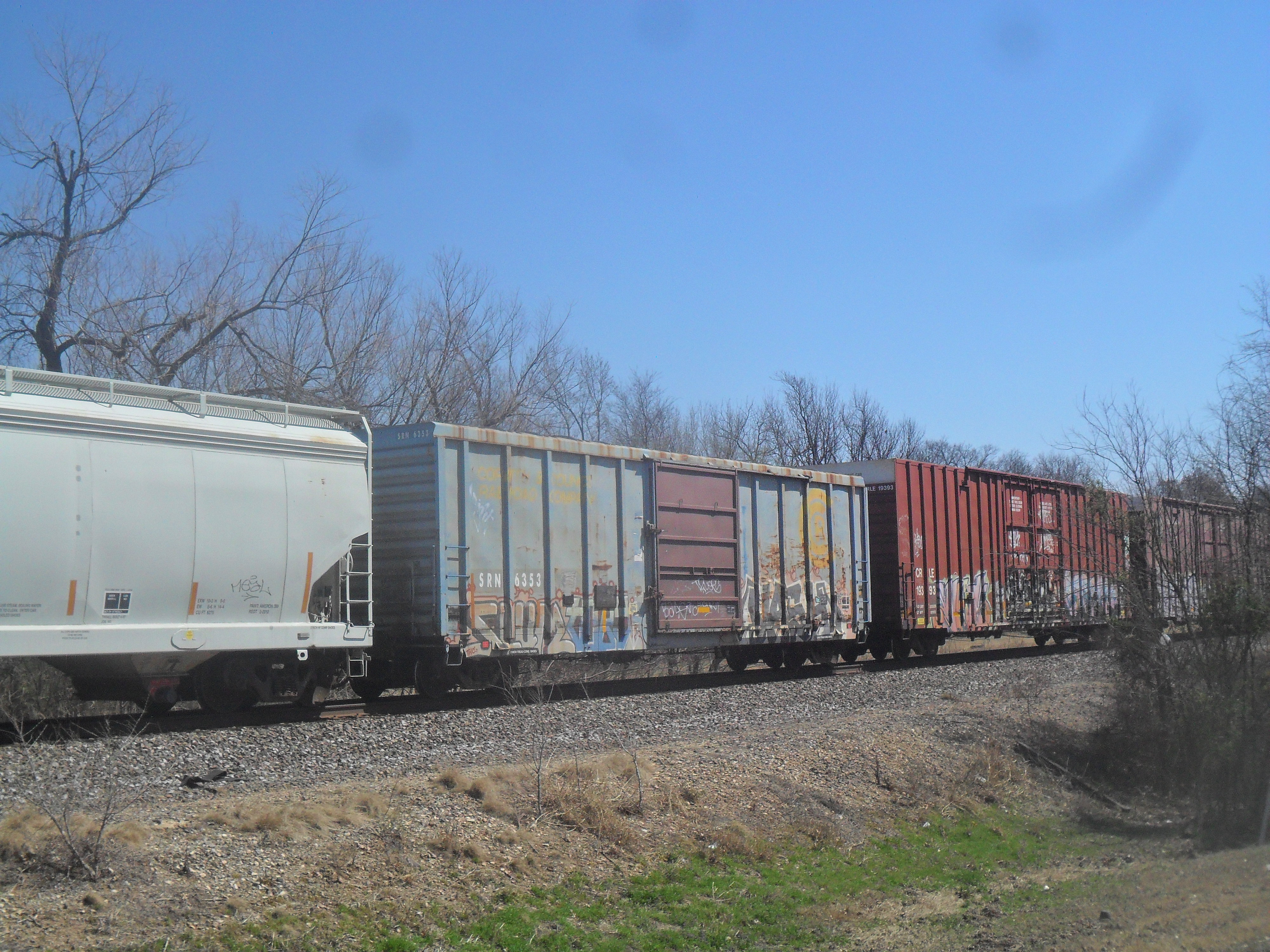 Former Corinth and Counce Railroad box car, now part of the Sabine River & Northern, #SRN 6353, on a BNSF freight train in Norman, Oklahoma, March 15, 2018.